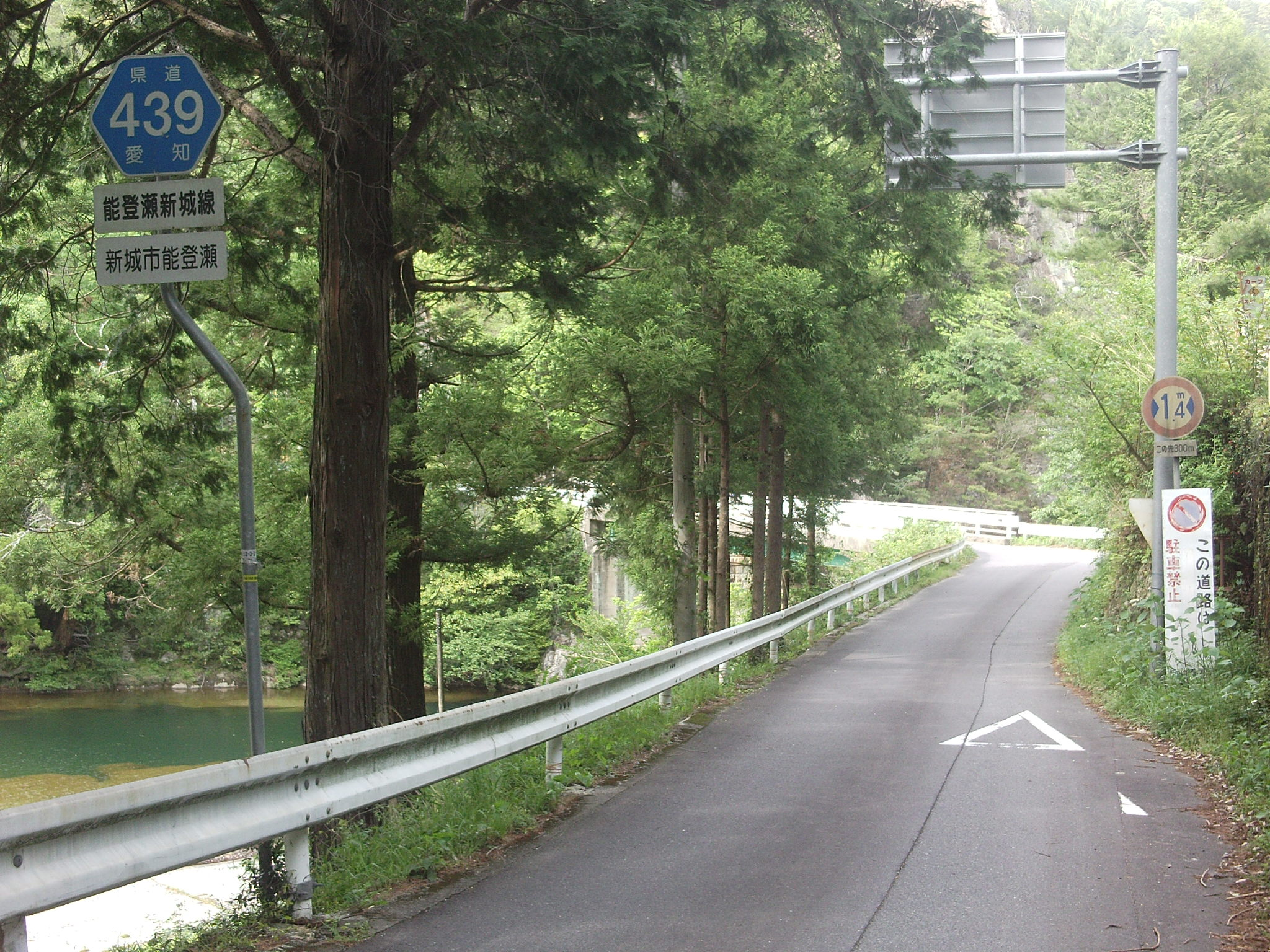 Aichi prefectural road No.439 in Notose, Shinshiro, Aichi.